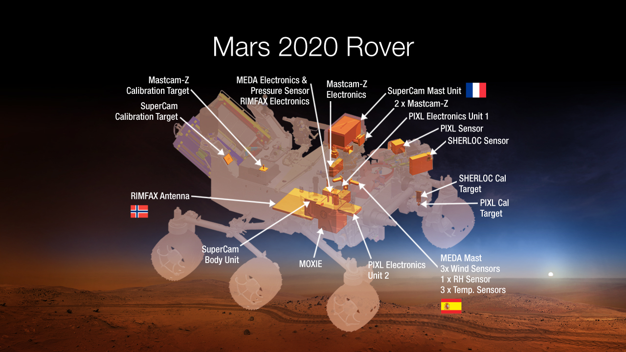 RELEASE 14-208 - NASA Announces Mars 2020 Rover Payload to Explore the Red Planet as Never Before An artist concept image of where seven carefully-selected instruments will be located on NASA’s Mars 2020 rover. The instruments will conduct unprecedented science and exploration technology investigations on the Red Planet as never before. The next rover NASA will send to Mars in 2020 will carry seven carefully-selected instruments to conduct unprecedented science and exploration technology investigations on the Red Planet. NASA announced the selected Mars 2020 rover instruments Thursday at the agency's headquarters in Washington. Managers made the selections out of 58 proposals received in January from researchers and engineers worldwide. Proposals received were twice the usual number submitted for instrument competitions in the recent past. This is an indicator of the extraordinary interest by the science community in the exploration of the Mars. The selected proposals have a total value of approximately $130 million for development of the instruments. Planning for NASA's 2020 Mars rover envisions a basic structure that capitalizes on the design and engineering work done for the NASA rover Curiosity, which landed on Mars in 2012, but with new science instruments selected through competition for accomplishing different science objectives. Mars 2020 is a mission concept that NASA announced in late 2012 to re-use the basic engineering of Mars Science Laboratory to send a different rover to Mars, with new objectives and instruments, launching in 2020. NASA's Jet Propulsion Laboratory, a division of the California Institute of Technology, Pasadena, manages NASA's Mars Exploration Program for the NASA Science Mission Directorate, Washington.